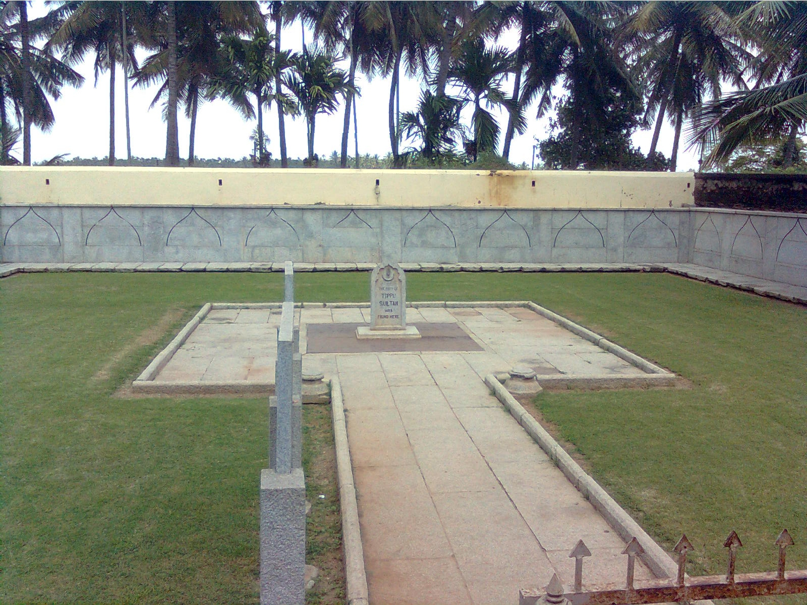 The battleground where tippu’s body was found.